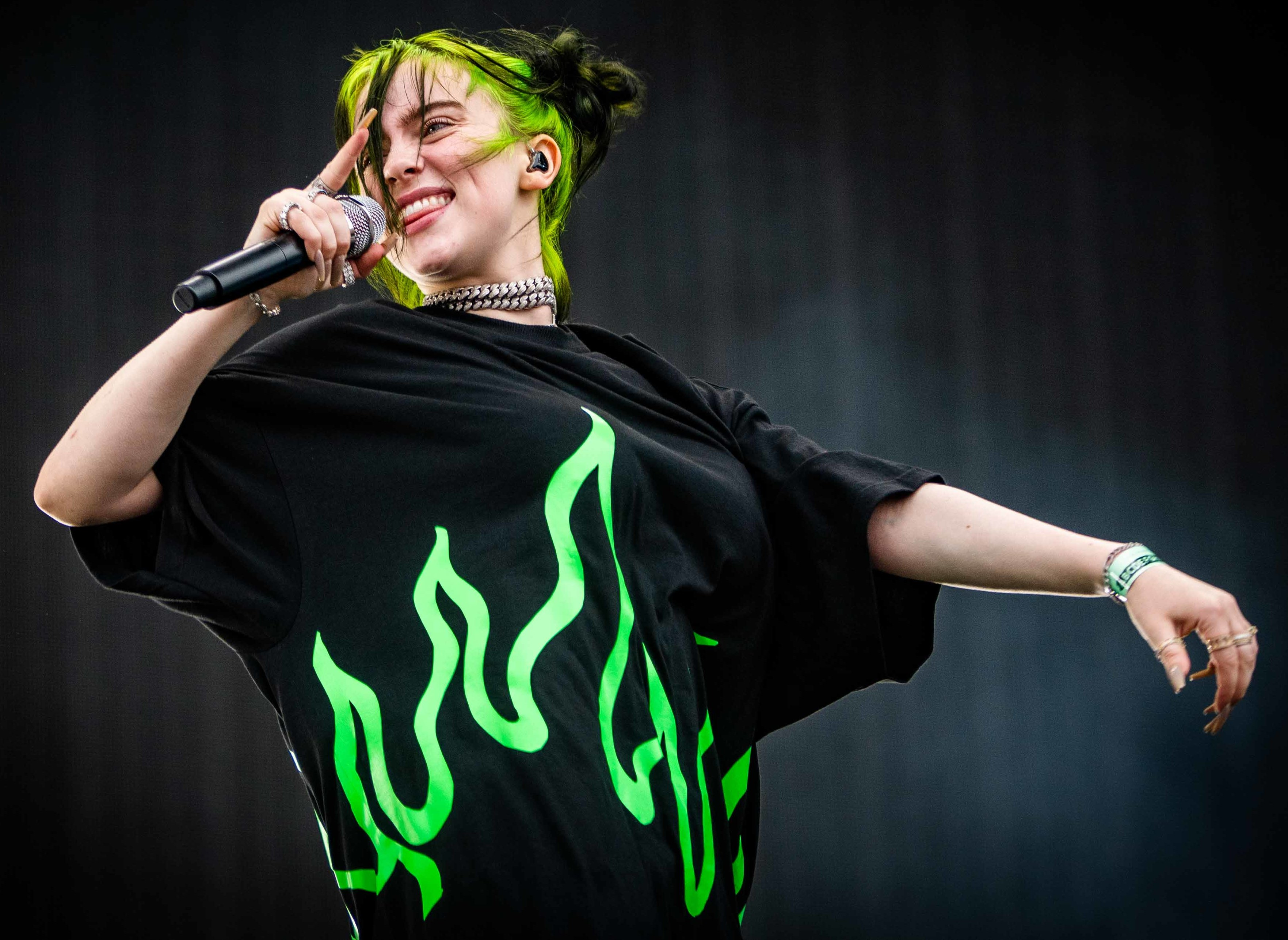 © Lars Crommelinck Photography BillieEilish #Pukkelpop2019